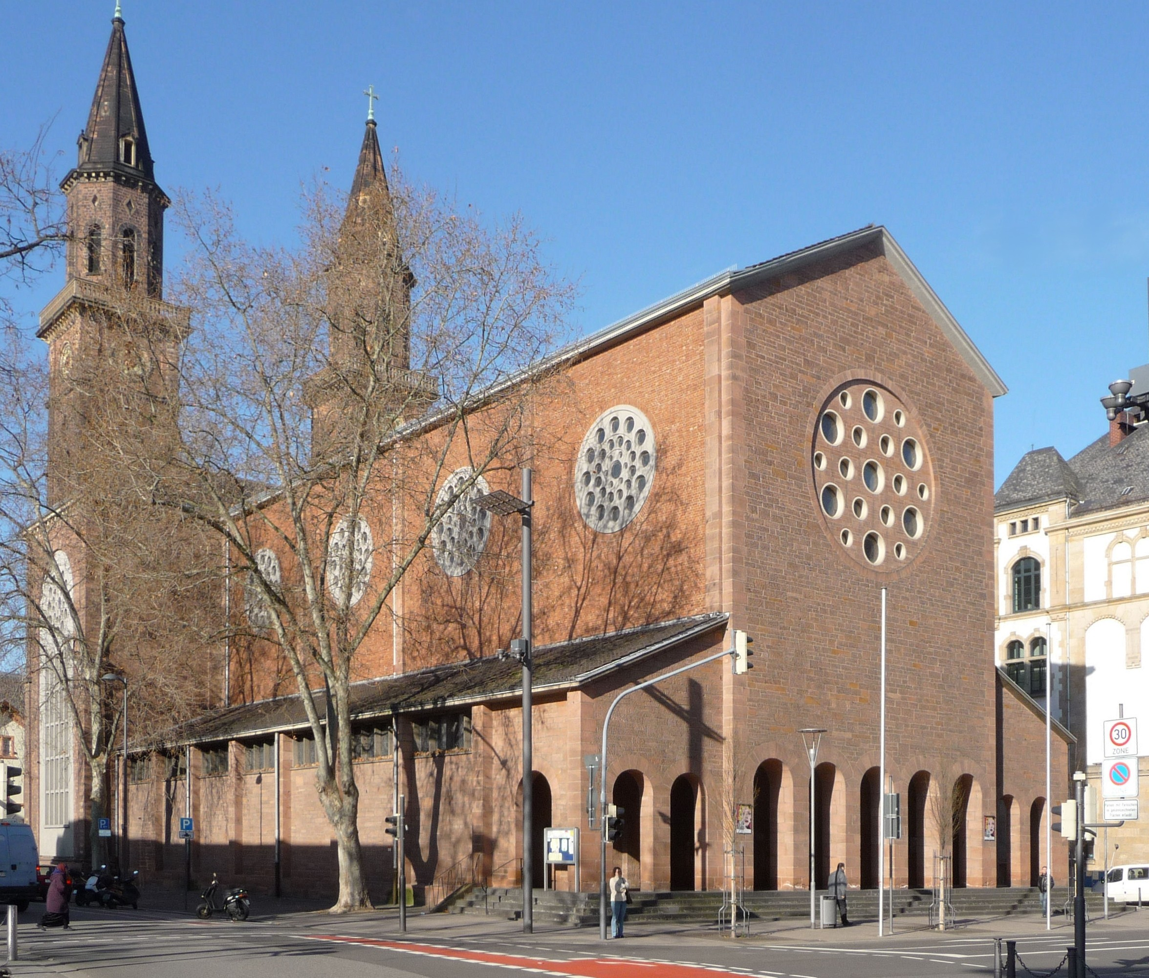 Church in Ludwigshafen, Germany